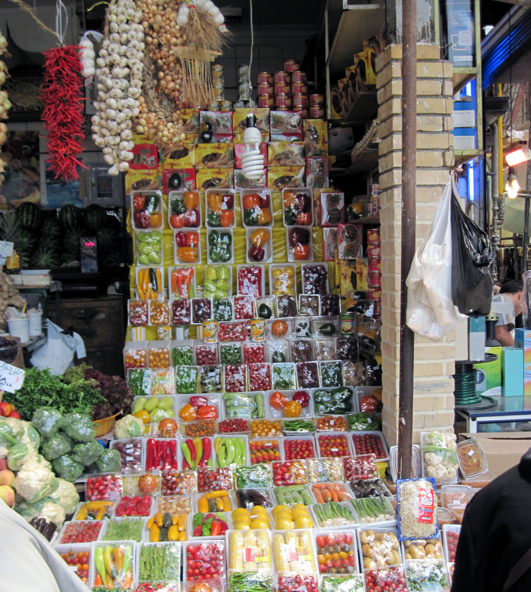 Bazaar of Tajrish - Tehran